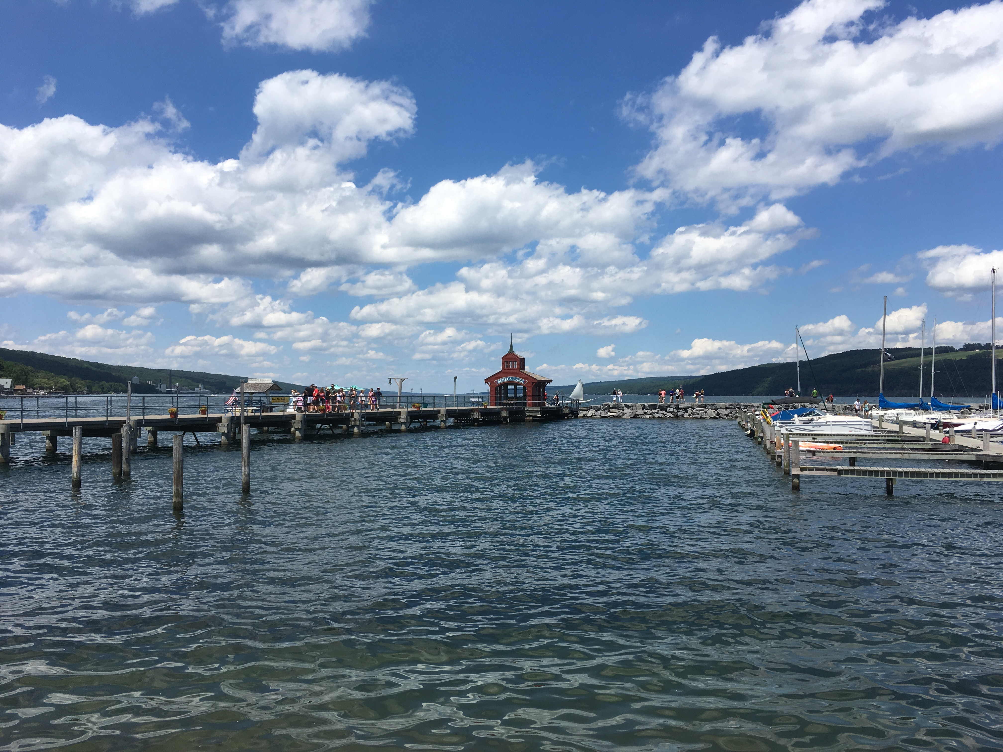 A view of Seneca Lake from Watkins Glen, New York.